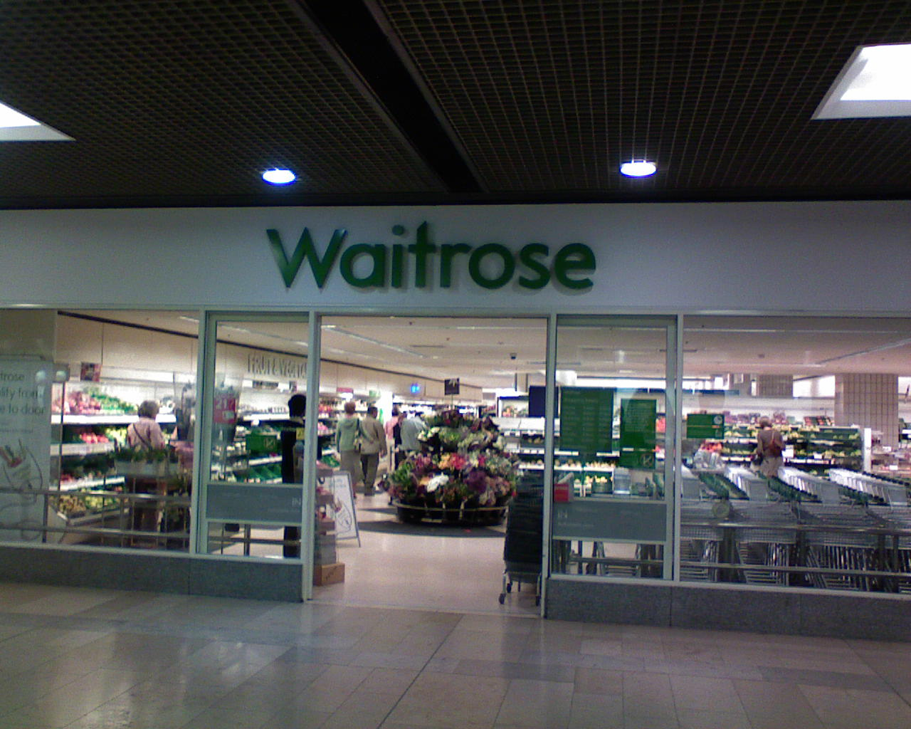 The Waitrose store in Peterborough, Cambridgeshire.